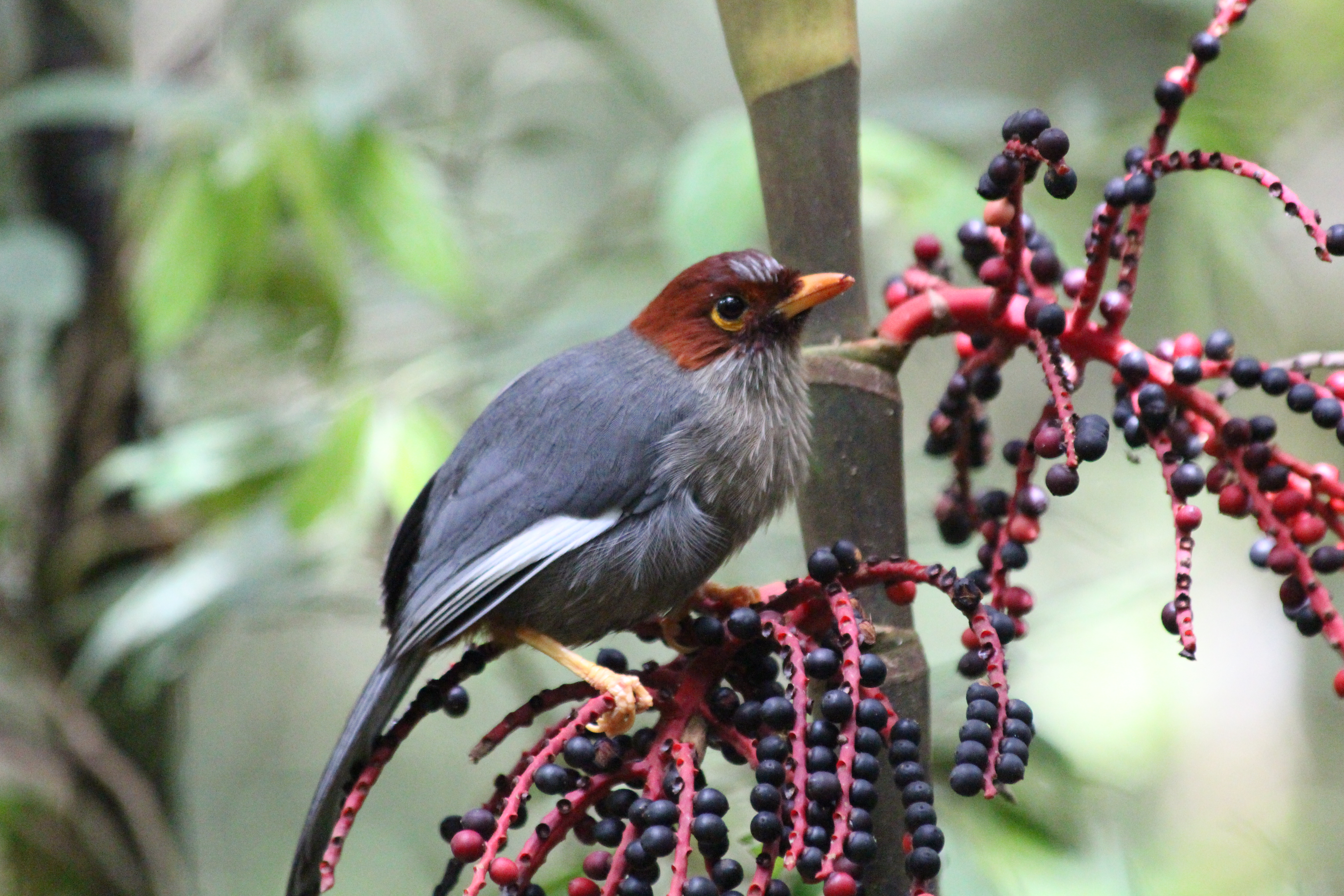 Chestnut-hooded Laughingthrush (Garrulax treacheri), Mount Kinabalu, 24 December 2013